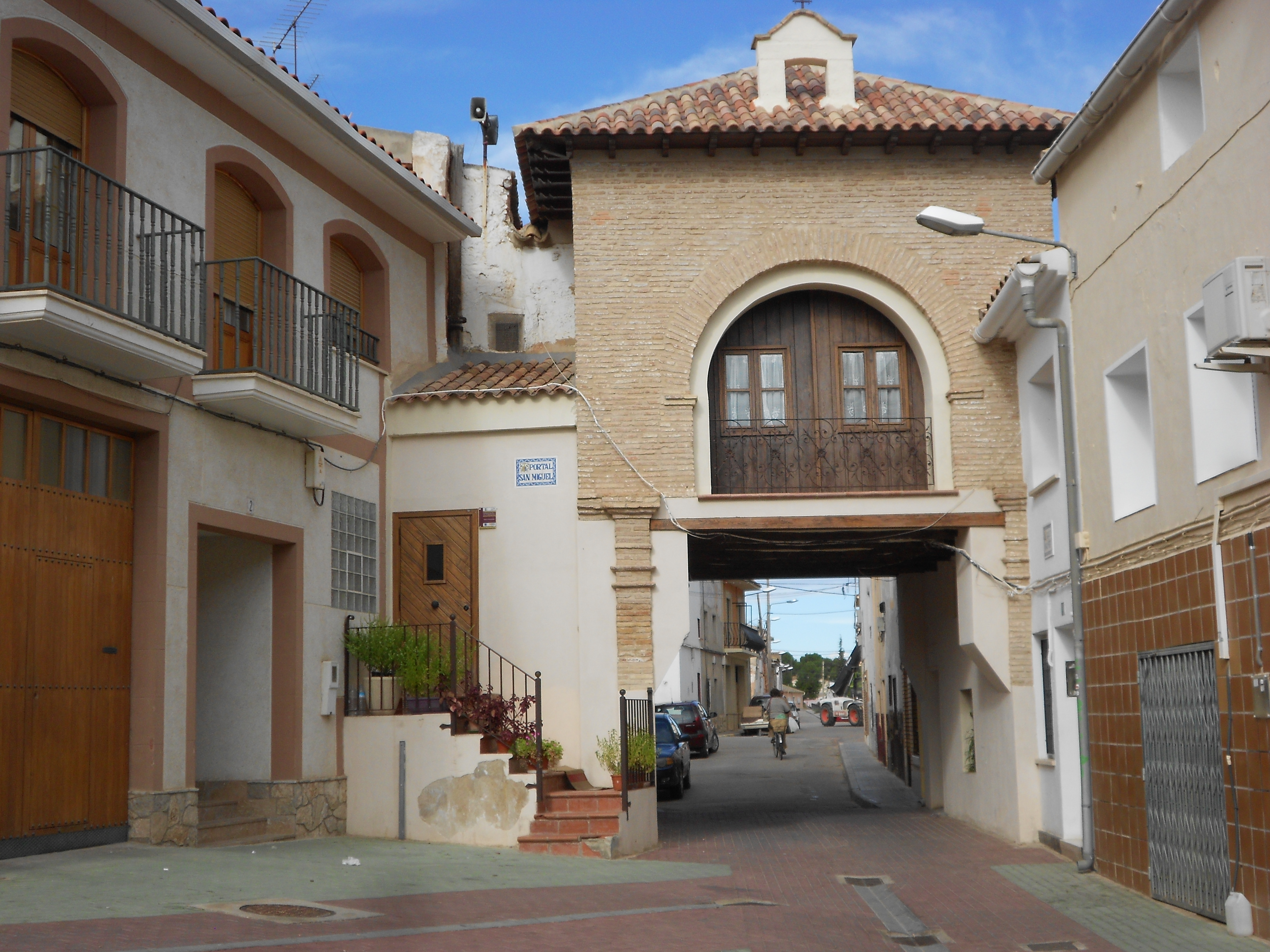 San Miguel Gate. Quinto (Aragón, Spain).